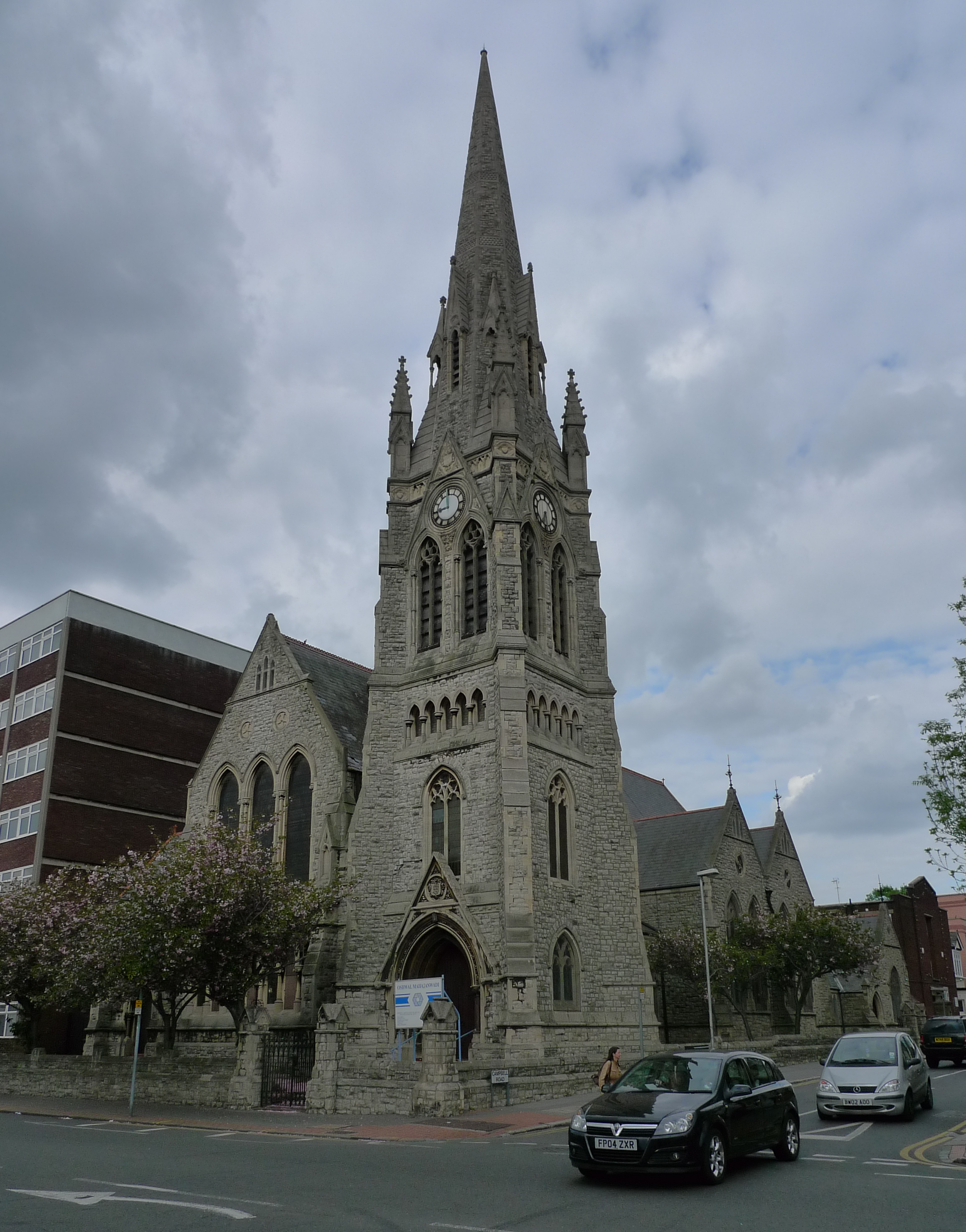 Oshwal Mahajanwadi, London Road, Croydon, seen from the southwest. Built in 1886 as a Congregational church, the building became West Croydon United Reformed Church in the 20th century, and is now a Jain temple.